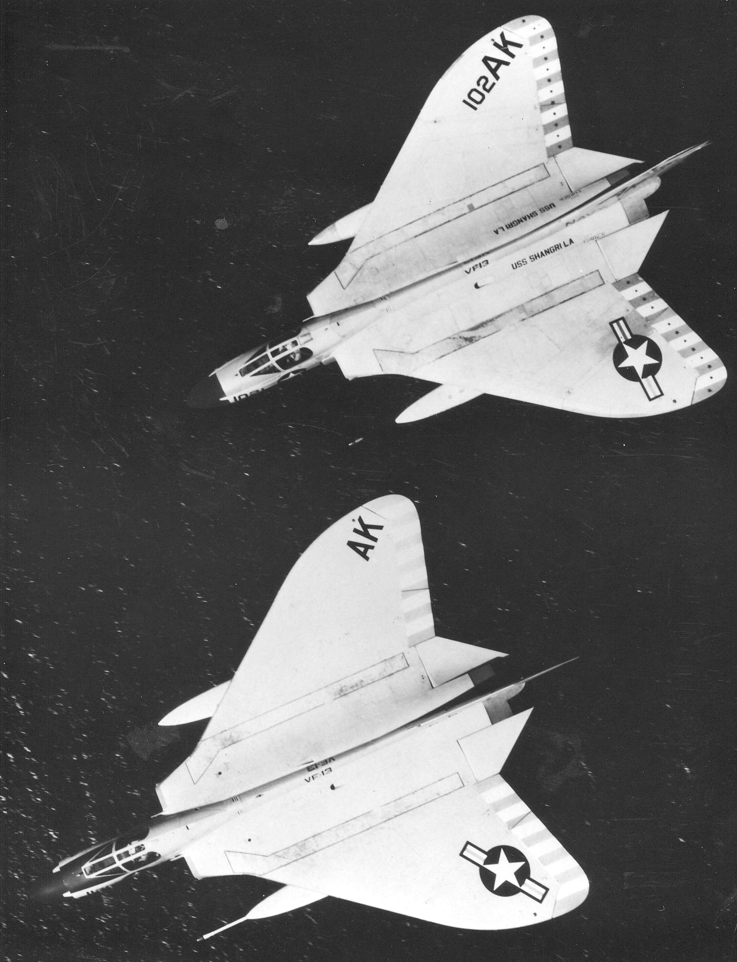 Two U.S. Navy Douglas F4D-1 Skyray from Fighter Squadron 13 (VF-13) "Night Cappers" in flight, in July 1961. VF-13 was assigned to Carrier Air Group 10 (CVG-10) aboard the aircraft carrier USS Shangri-La (CVA-38).